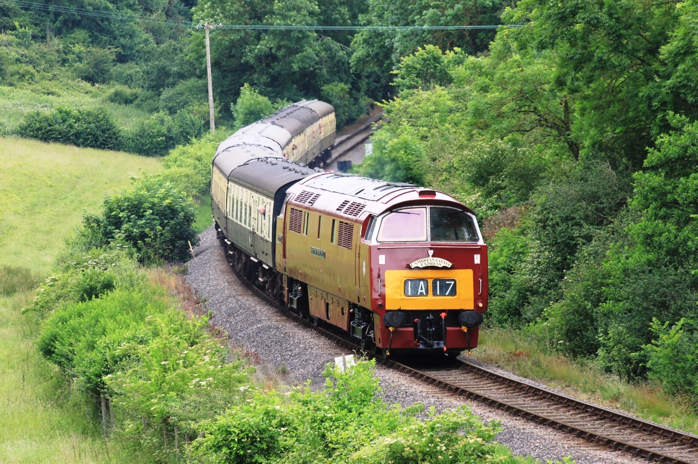 Preserved diesel-hydraulic D1010 Western Campaigner climbs out of Watchet into the Brendon foothills. It is heading from Bishops Lydeard to Minehead on the West Somerset Railway.